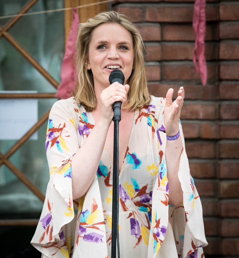 Ingrid Olava at the Borggården stage in the Vigeland Park. The concert was part of Piknik i Parken and took place on 23. June 2017 in Oslo. Lineup: Ingrid Olava (vocal and piano).